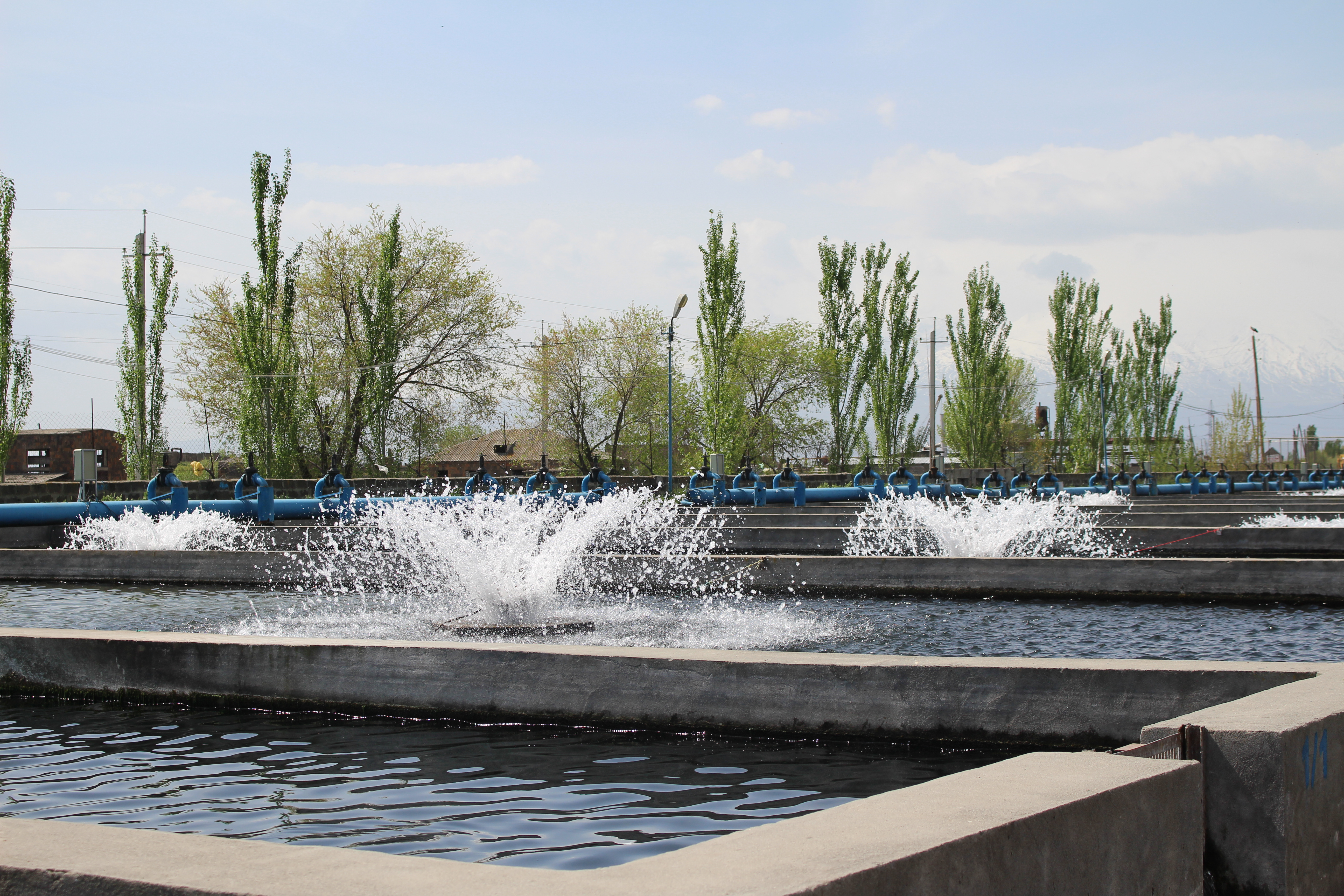 A fish farm in Ararat valley, Armenia.